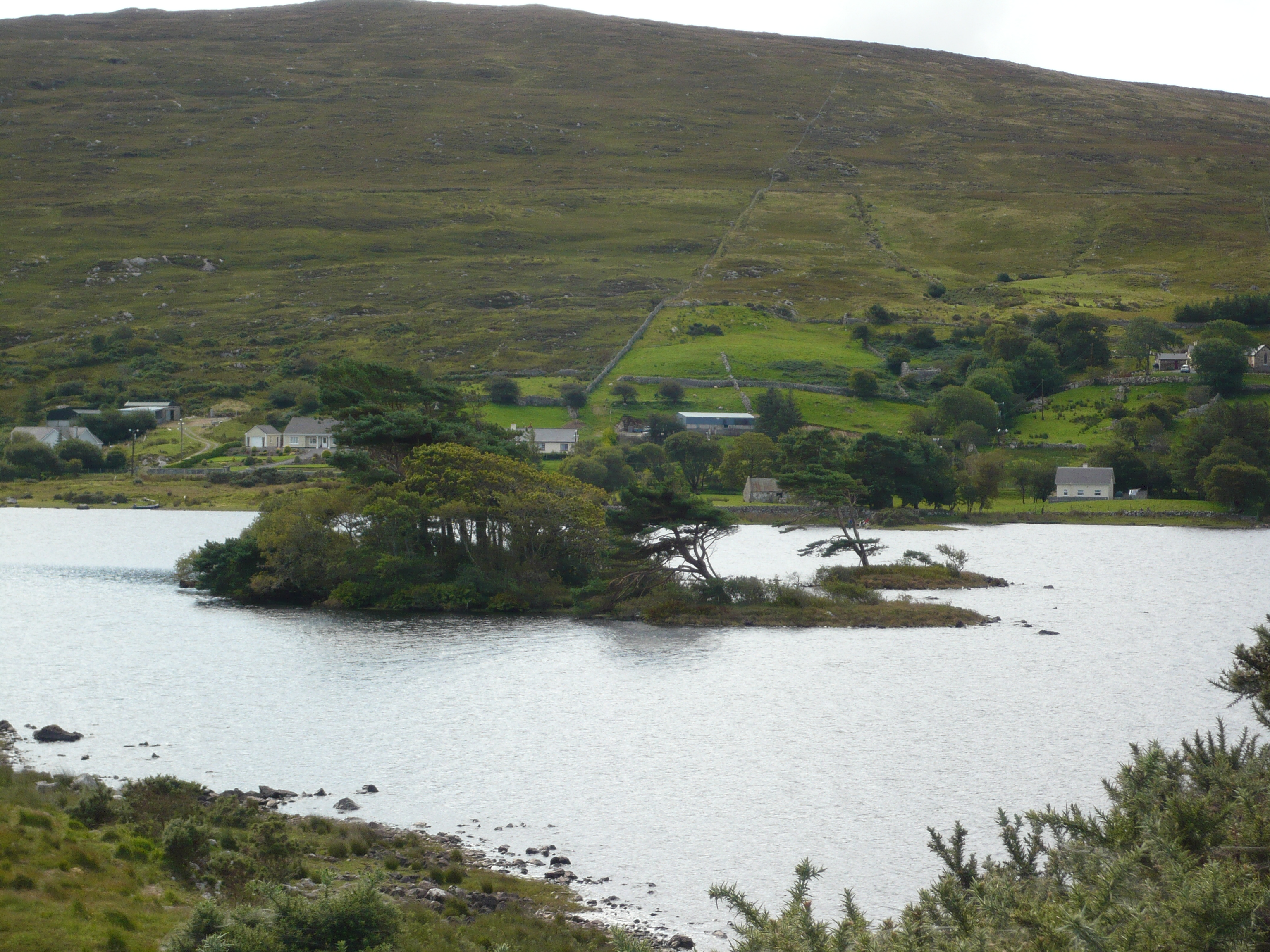 Leam West, Co. Galway, Ireland